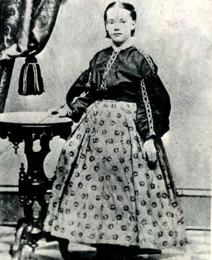 This is a photograph of Marion Foster Welch, the daughter of Jane and Stephen Foster at about the age of ten.